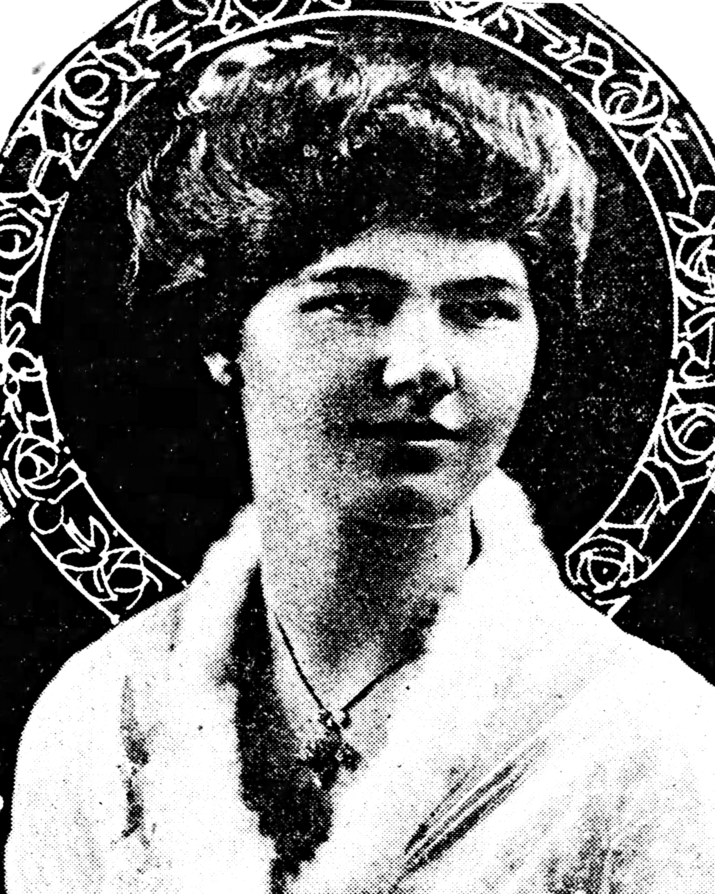 Jane Shapleigh, Veiled Prophet queen, St. Louis, 1915